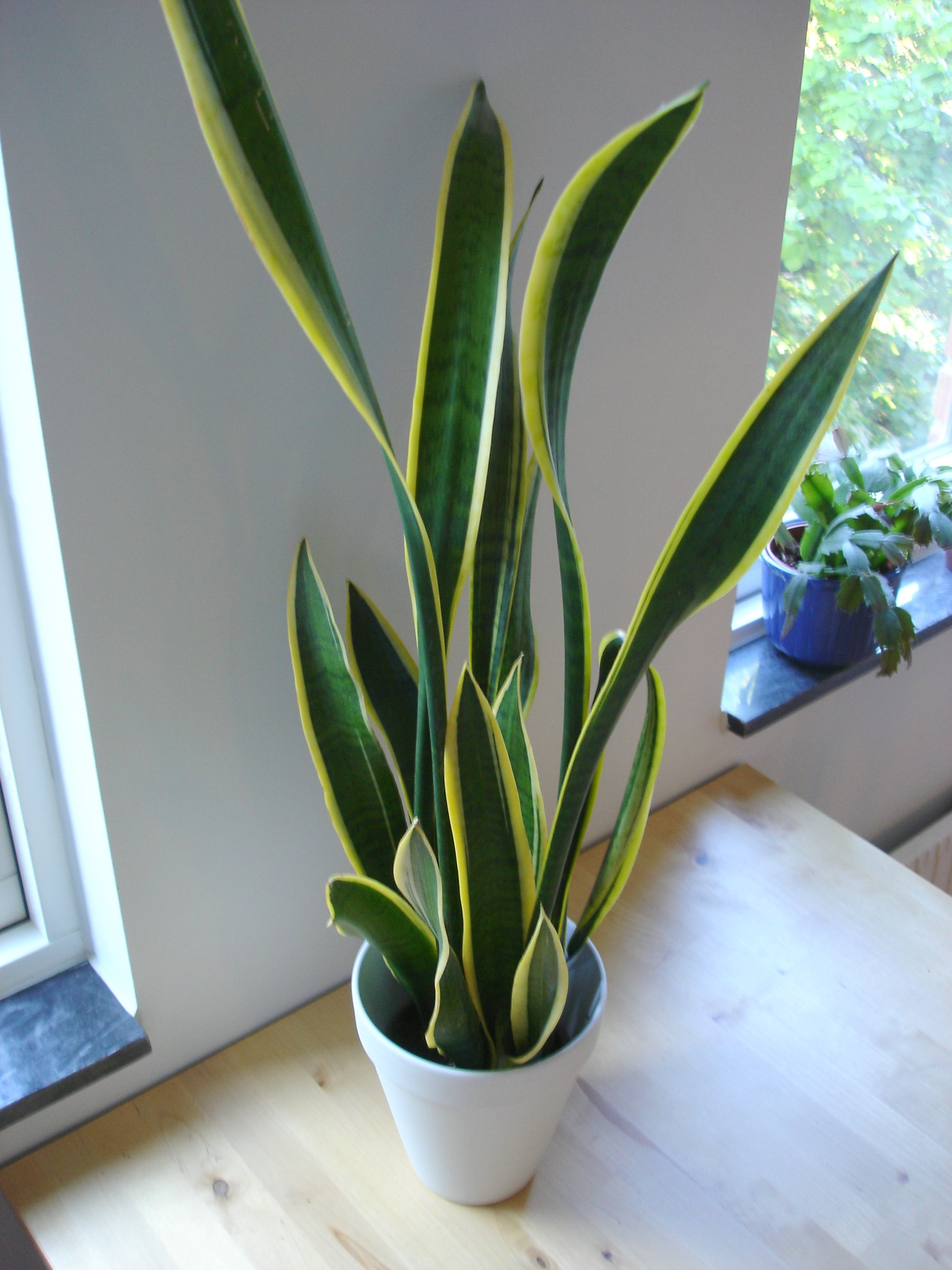 This plant is called "Snake plant" or "Mother-in-Law's tongue" in English.